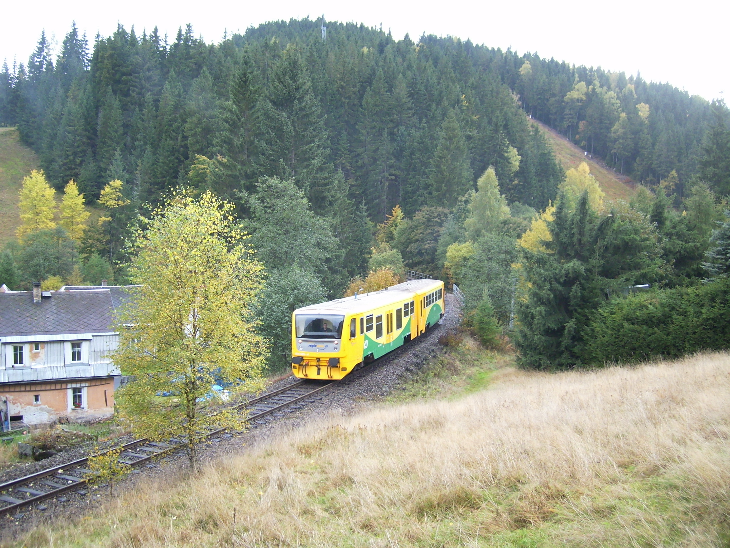 train in Nové Hamry